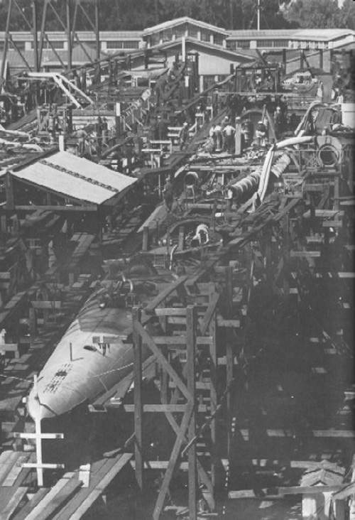 The Silversides (S-236) under construction at Mare Island Navy Yard near San Francisco. This photo was taken on July 1, 1941, about two months before the submarine was launched.